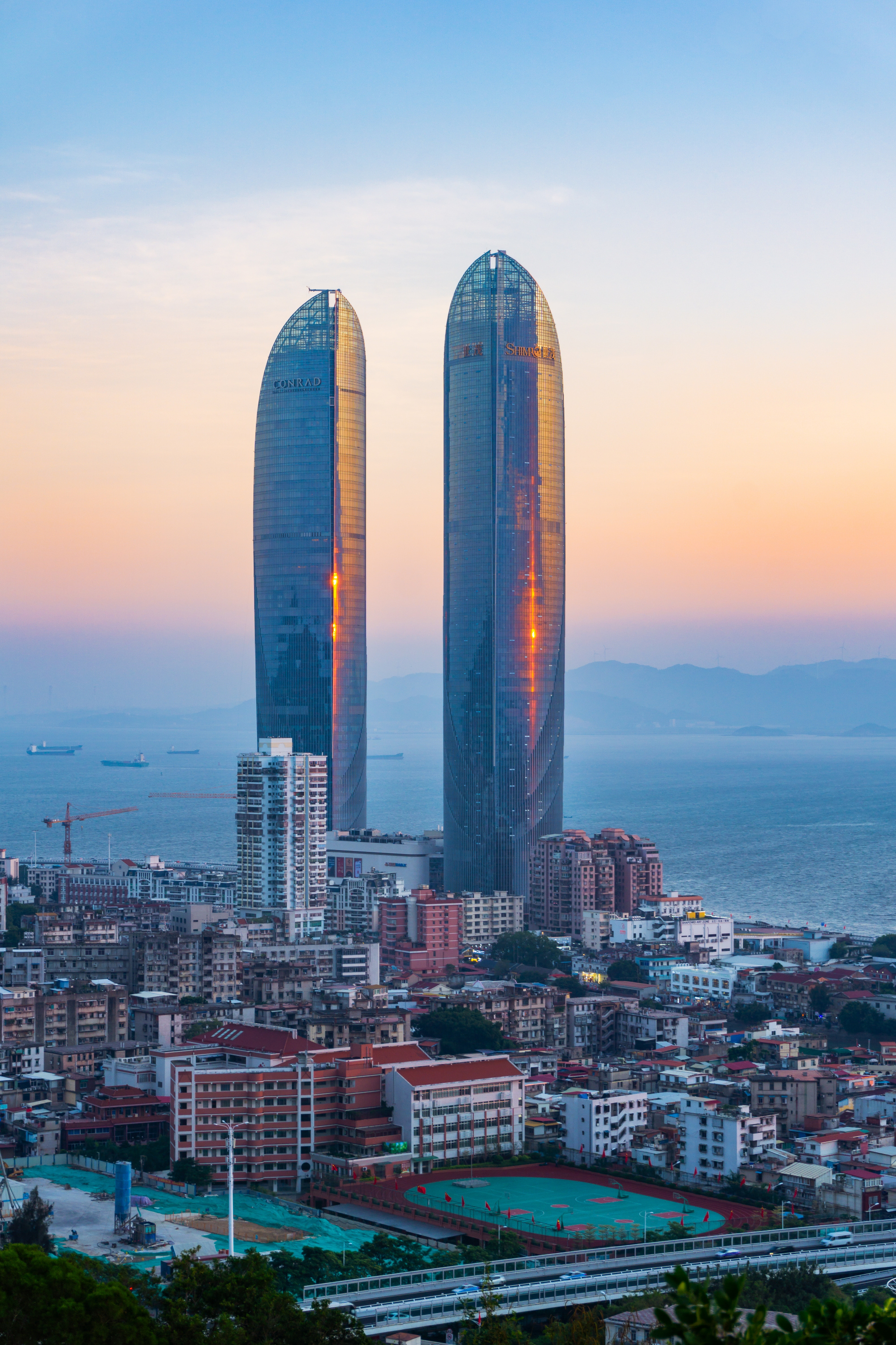 Xiamen Shimao Straits Tower at dusk